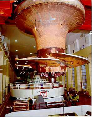 A Kaplan turbine in a power plant